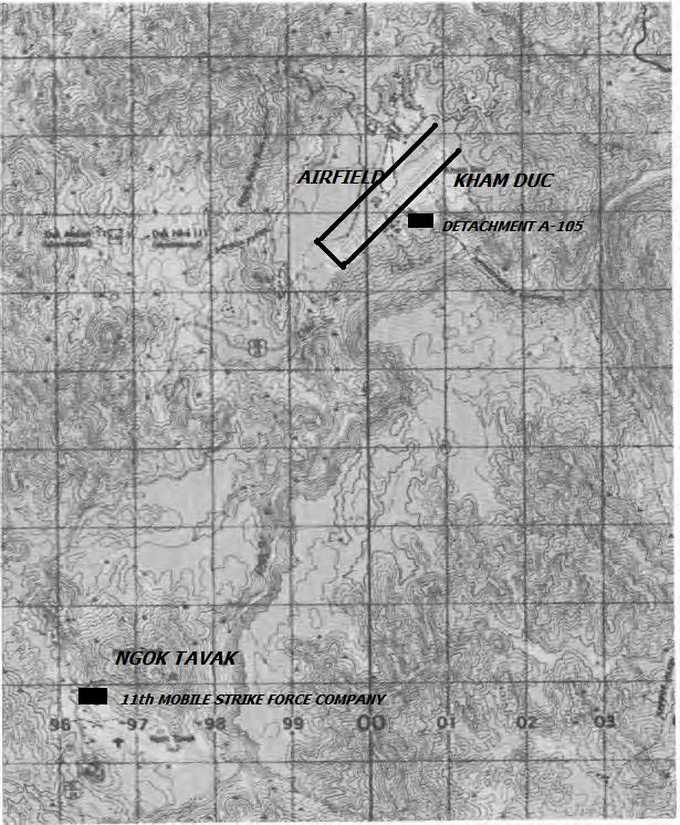 This map was taken from the sourced material below; I added the position of Kham duc and Ngok Tavak by marking the relevant areas, because the map is of poor quality.